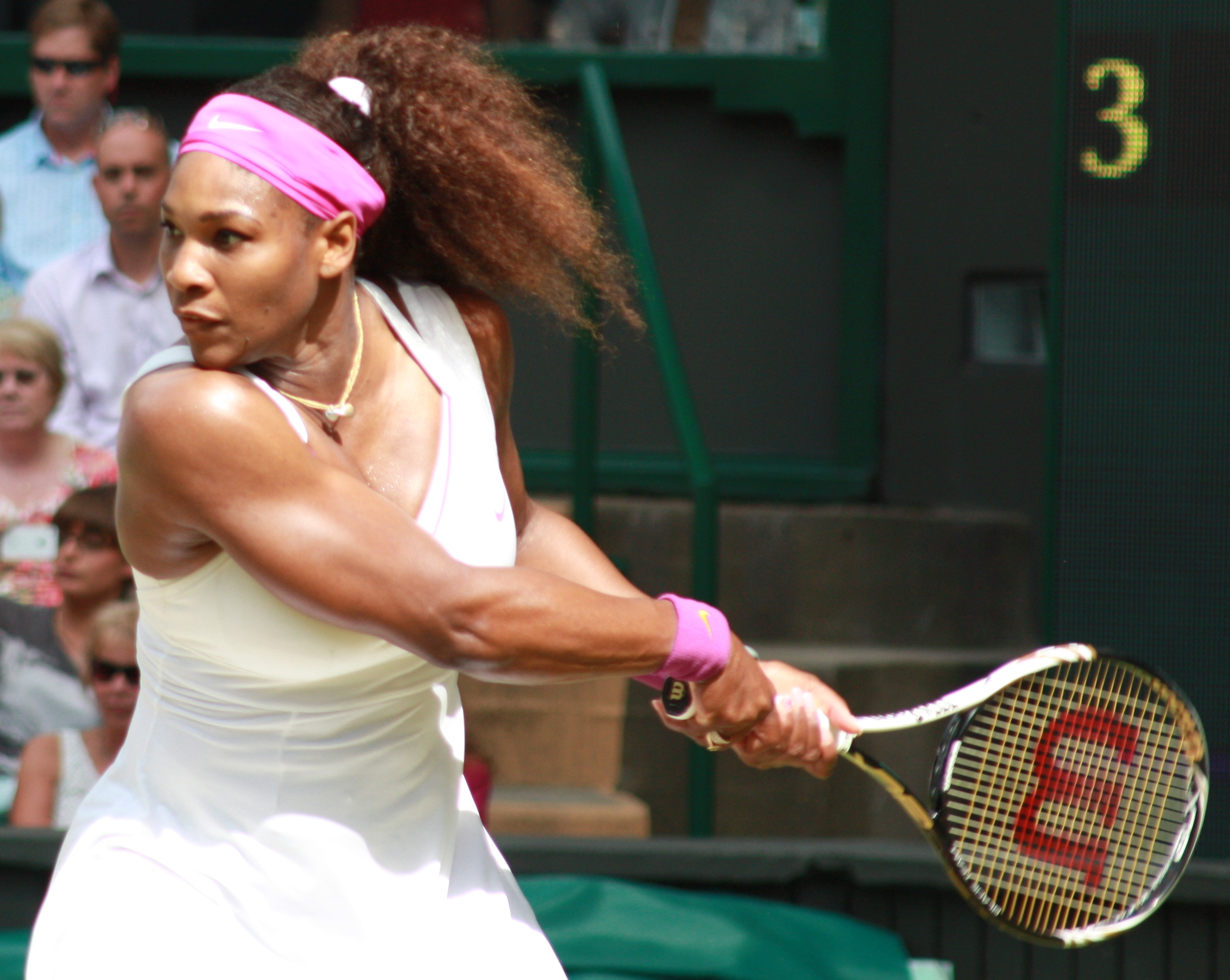 Serena Williams hitting a backhand shot during the 2012 Wimbledon Championships on Day 10 in the Semifinals versus Victoria Azarenka.